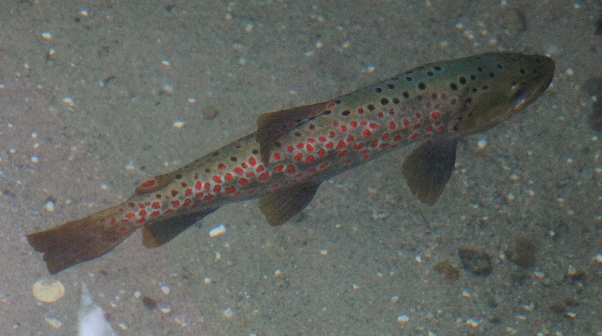 Ohrid trout (Salmo letnica) in a fishfarm in Drilon close to Pogradec, Albania